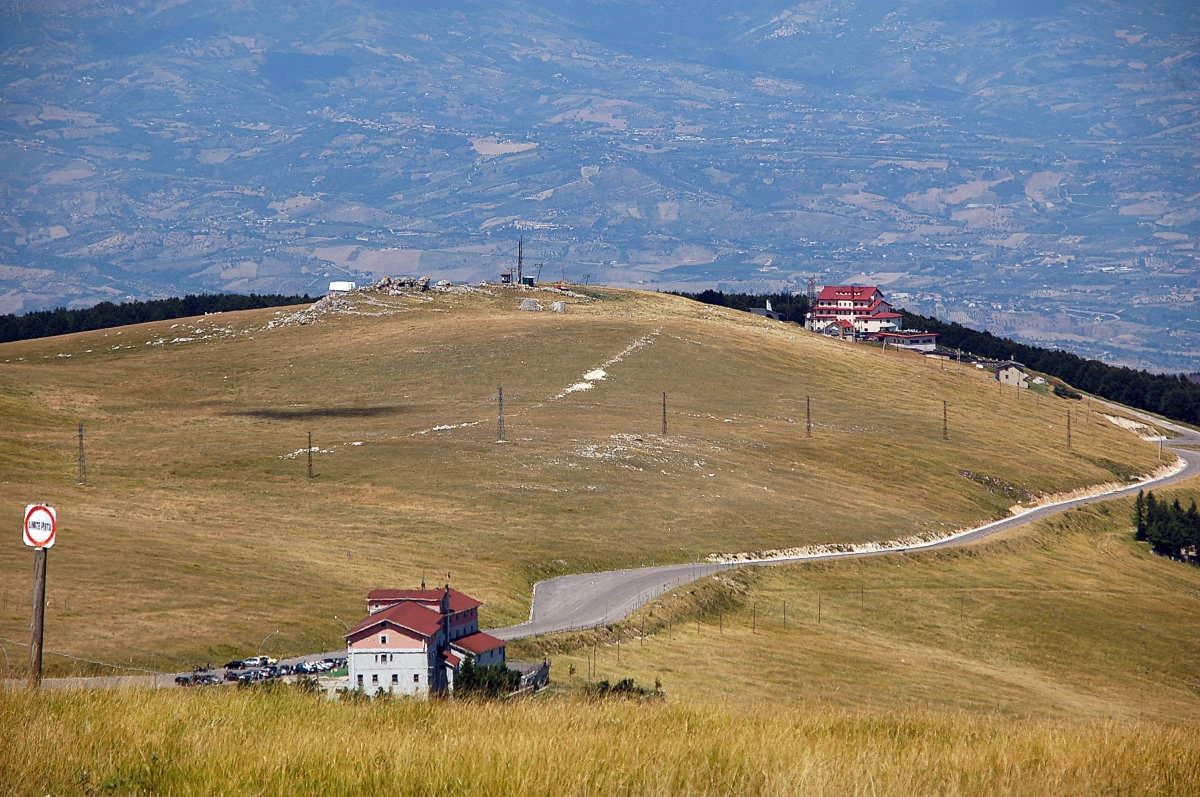 Blockhaus (Abruzzo) Majella National Park